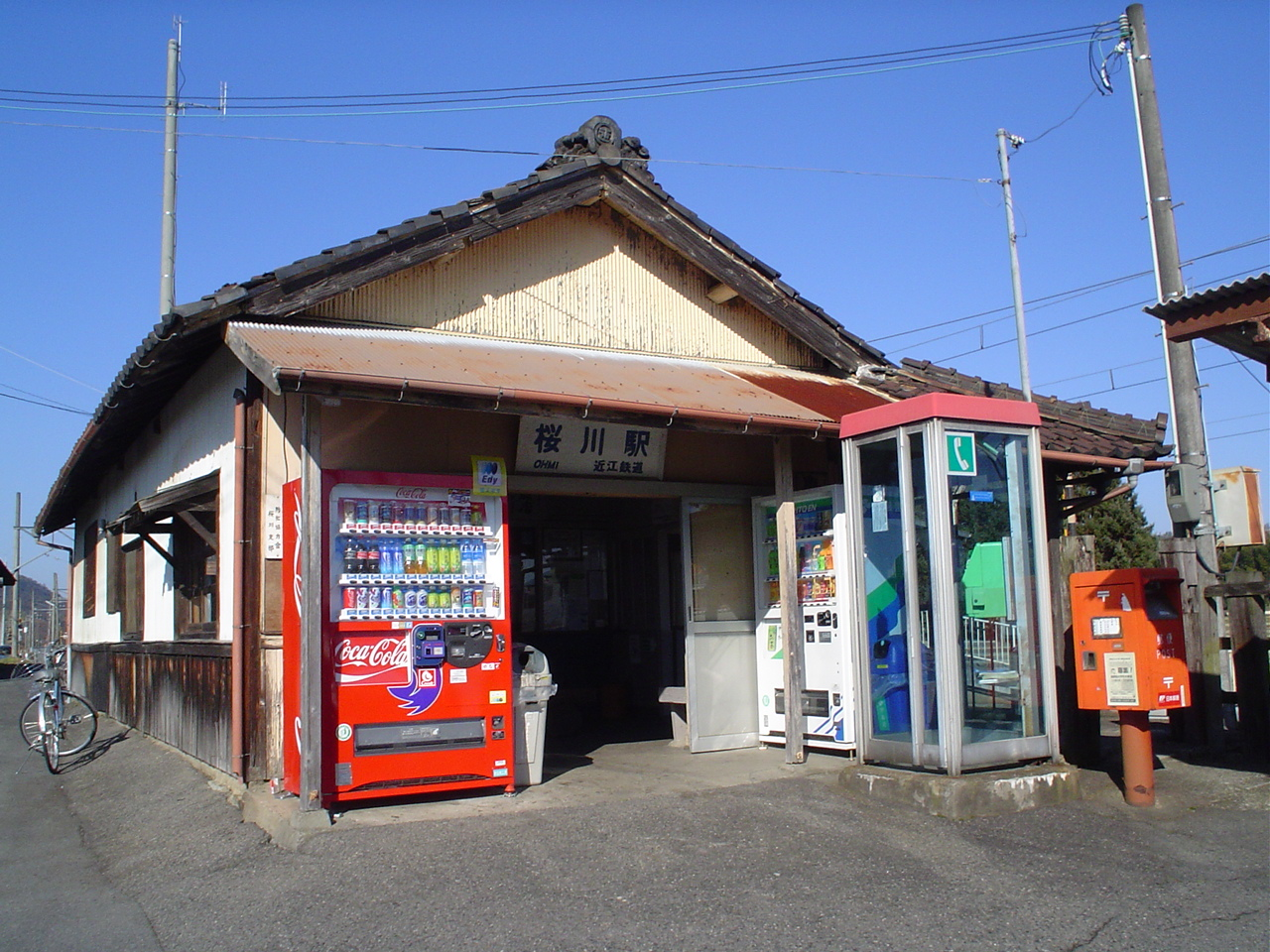 Sakuragawa Station in shiga pref, japan